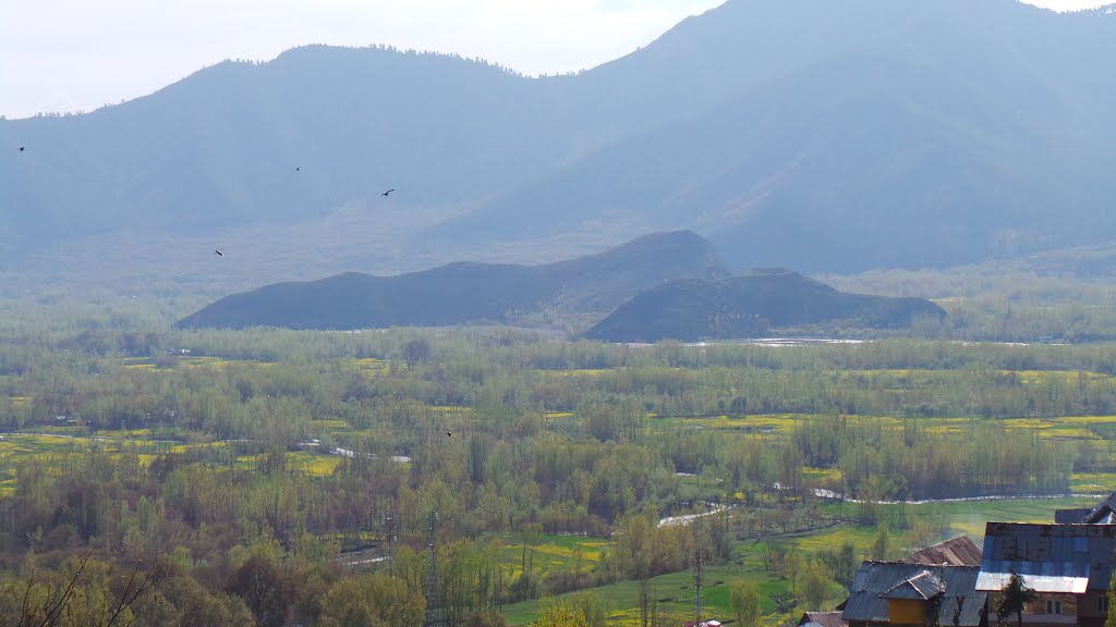 Rich Yellow Mustard Fiels in anantnag